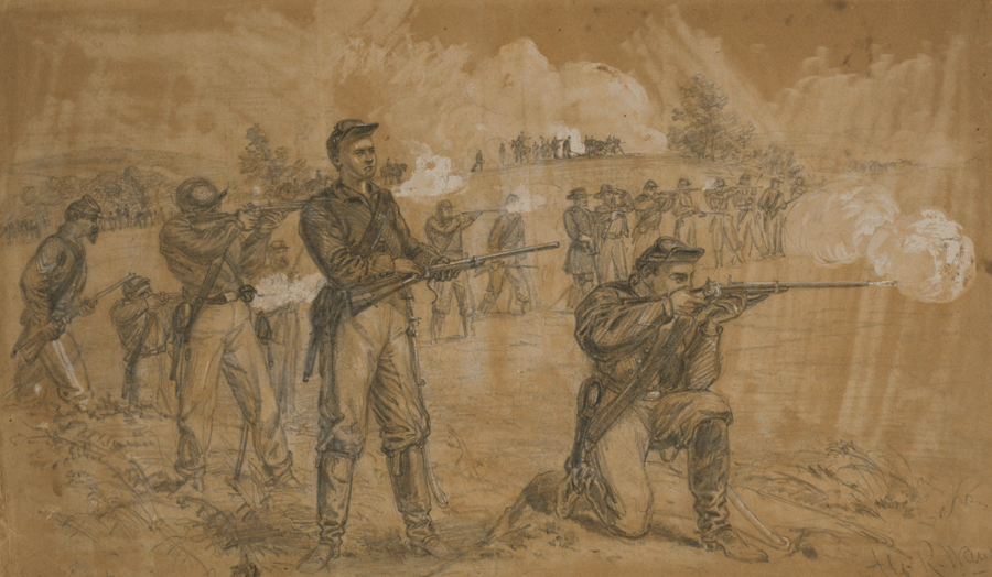 1st Maine Cavalry Skirmishing